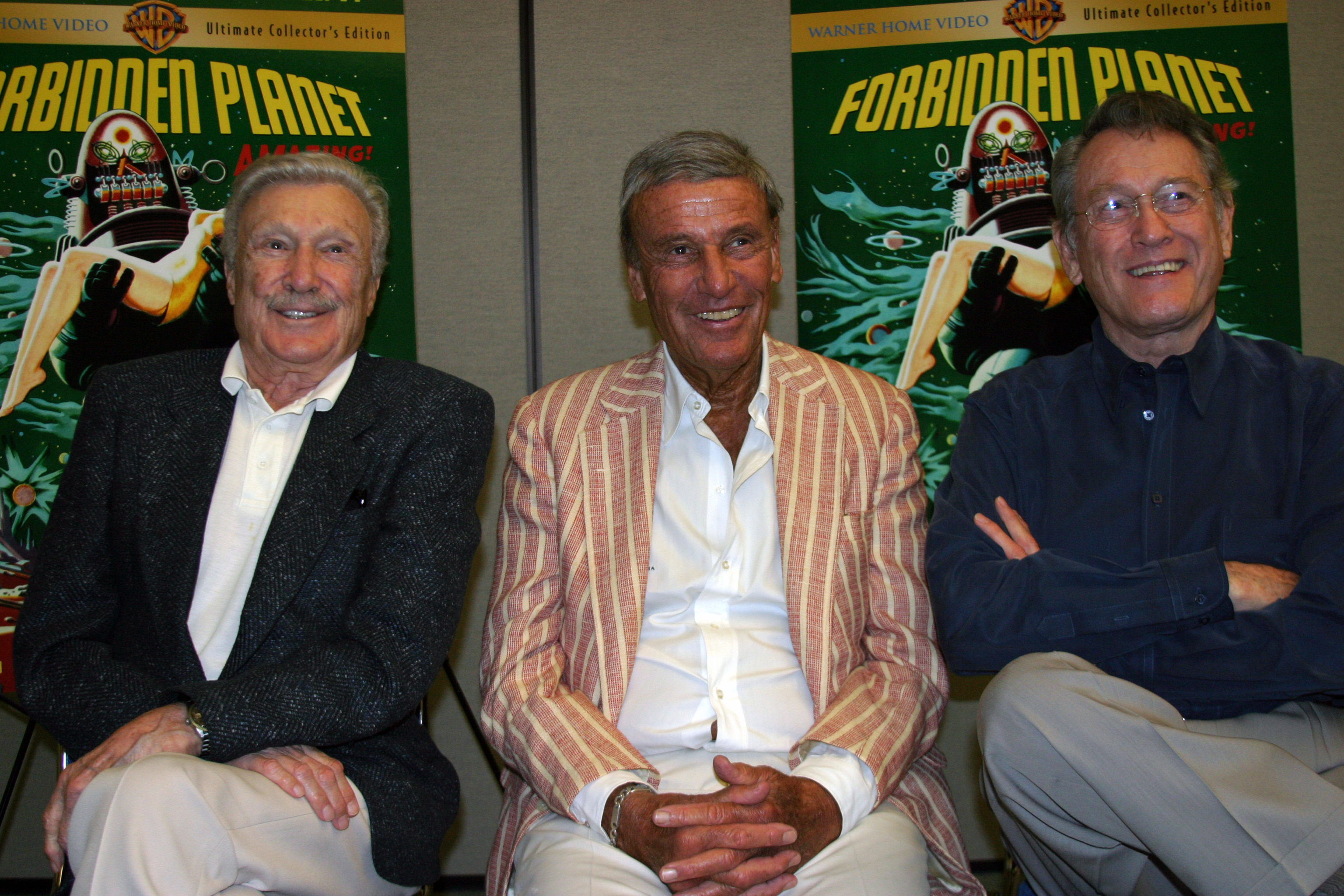 Warren Stevens, Richard Anderson and Earl Holliman appeared at the 2006 San Diego Comic Con to publicize "Forbidden Planet" remastered on DVD. Robbie the Robot also appeared on the main convention floor. Photograph by Patty Mooney, Crystal Pyramid Productions, San Diego.